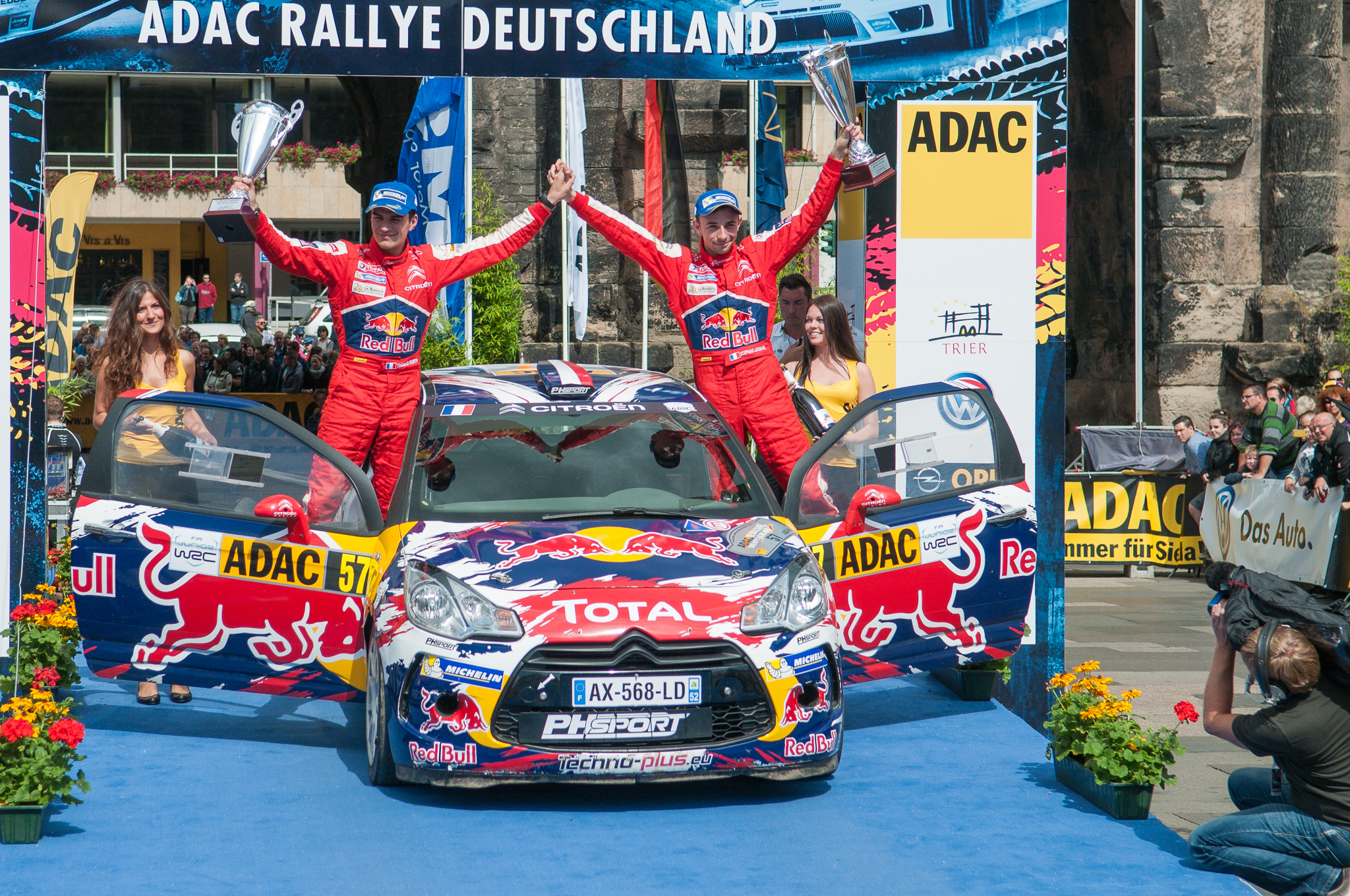 ADAC Rallye Deutschland 2014,Citroen DS3 R3T,FIA,FIA World Rally Championship,Motorsport,Rally,Rallye,Siegerehrung,Stephane Lefebvre,Thomas Dubois,WRC